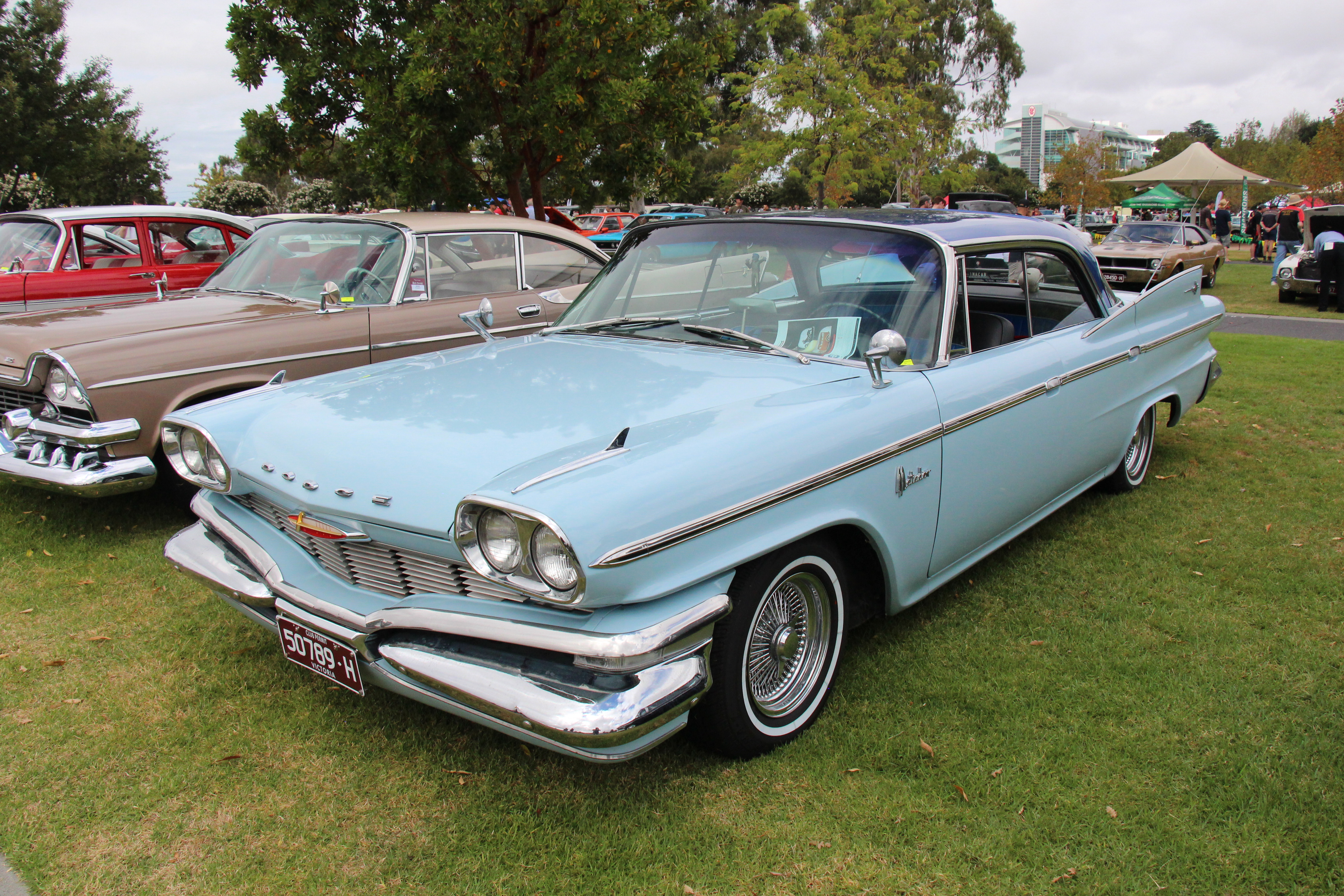 Azure / Marlin Blue. In 1928, Chrysler acquired Fargo Trucks and Dodge Brothers and also established Plymouth and DeSoto brands. Plymouth was Chryslers lowest priced car, Dodge was next, then Desoto and Chrysler was top of the line. The 1960-61 Dodge carried on the forward look styling of the 57-59 Dodge with tail fins at the rear, with jet pod tail lights. Model names were changed tho and a shorter wheelbase Dodge Dart introduced. The Matador was the base model full size Dodge (available in 2 and 4 door Hardtop, 4 door Sedan and Wagon) The Polara, was the upmarket model, more chrome and better trim in the interior (available in 2 door Convertible, 2 and 4 door Hardtop, 4 door Sedan and Wagon). The slightly shorter wheelbase Dodge Dart was available in three models; The base Dart Seneca (2 and 4 door Sedan and Wagon) Mid Dart Pioneer (2 door Hardtop, 2 and 4 door Sedan and Wagon) And top of the range Dart Phoenix (2 door Convertible, 2 and 4 door Hardtop and 4 door Sedan) Engine; 295hp Super Red Ram 361 cu in V8